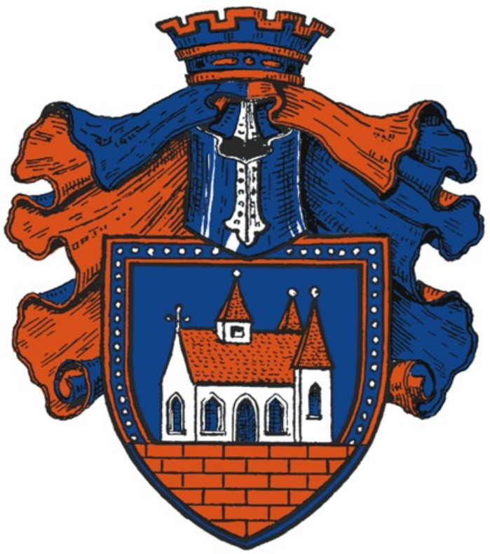 last granted in 1948